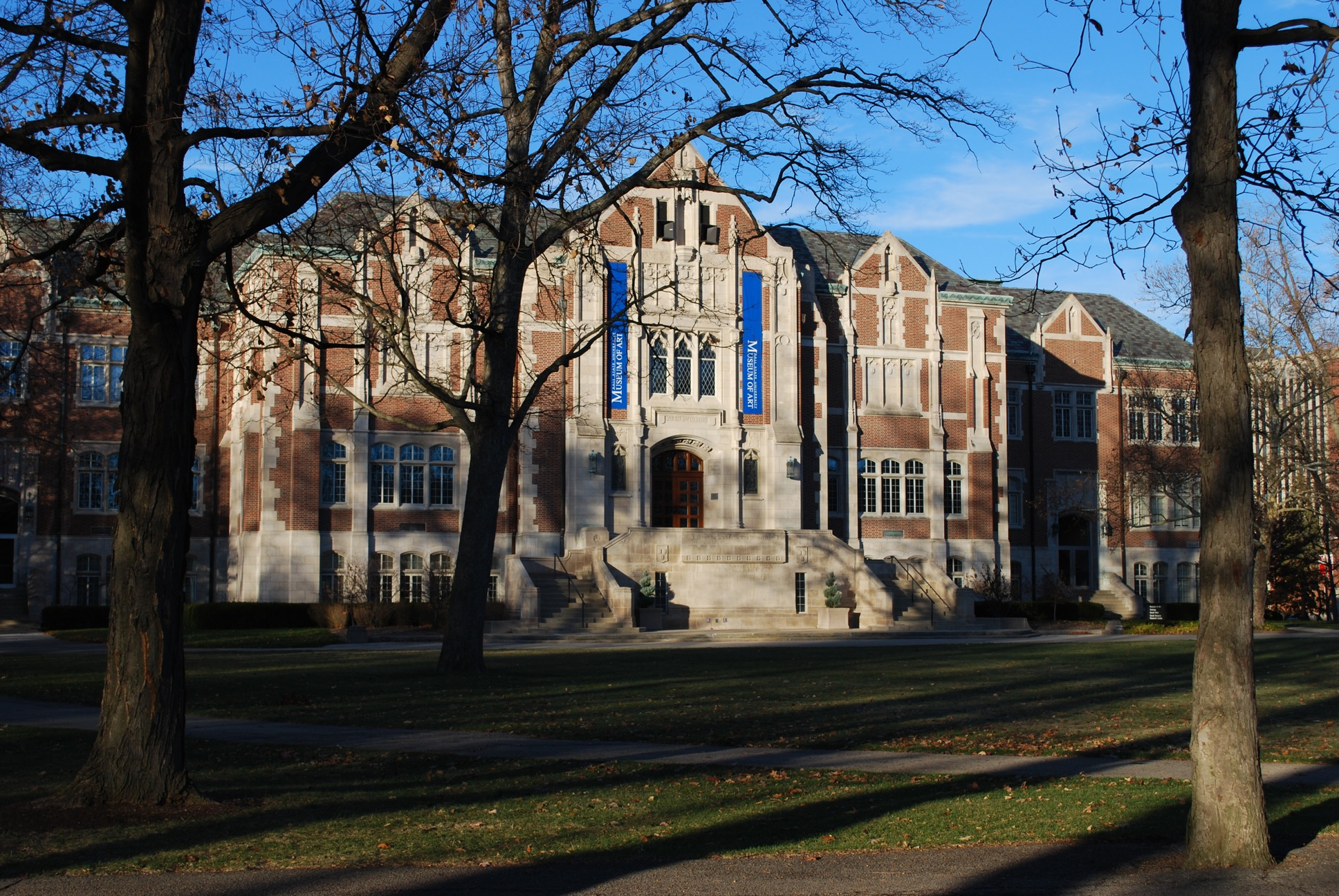 BSU Art Museum at dusk